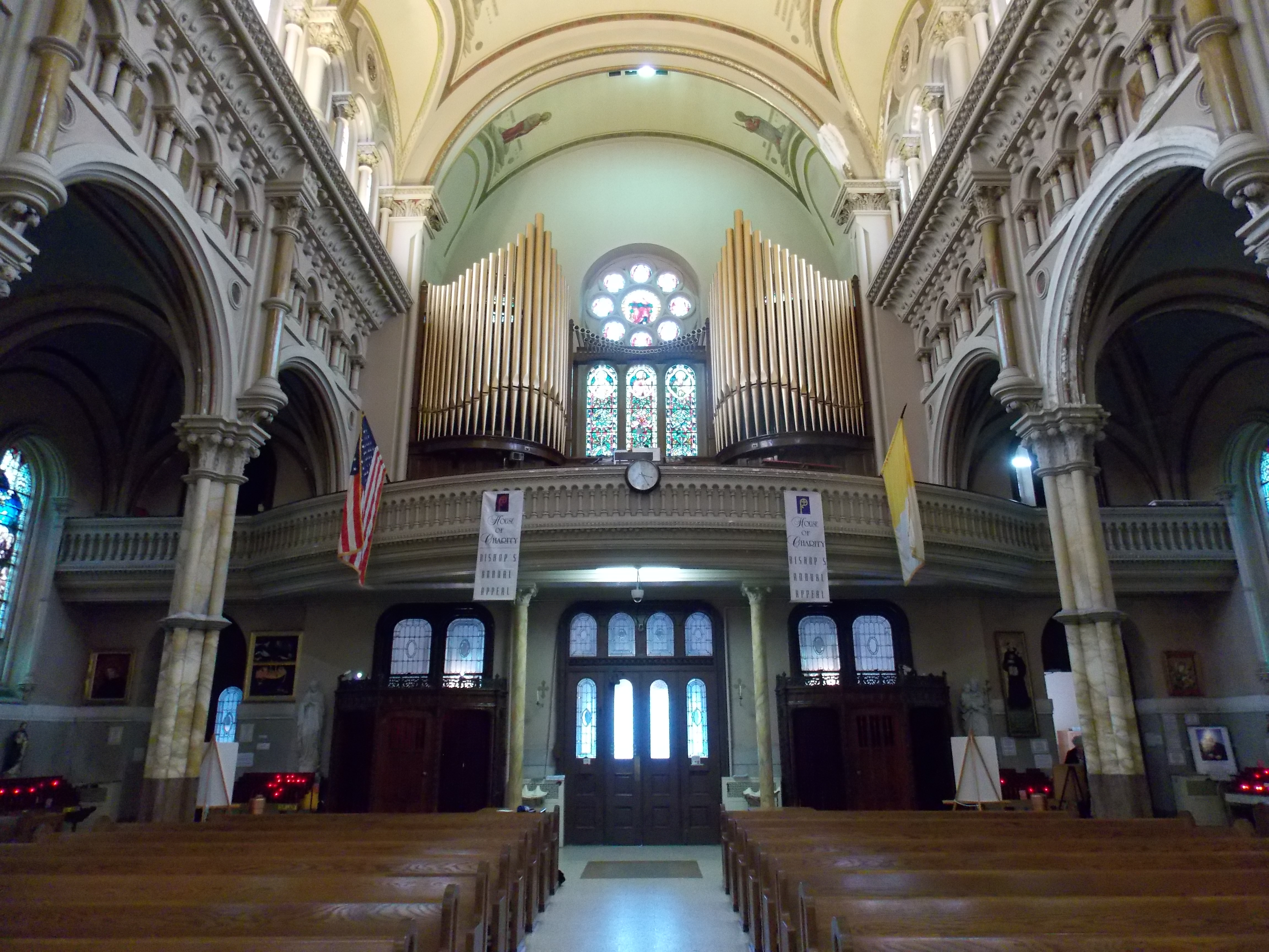 The interior of Saint Nicholas of Tolentine Catholic Church in Atlantic City, New Jersey.